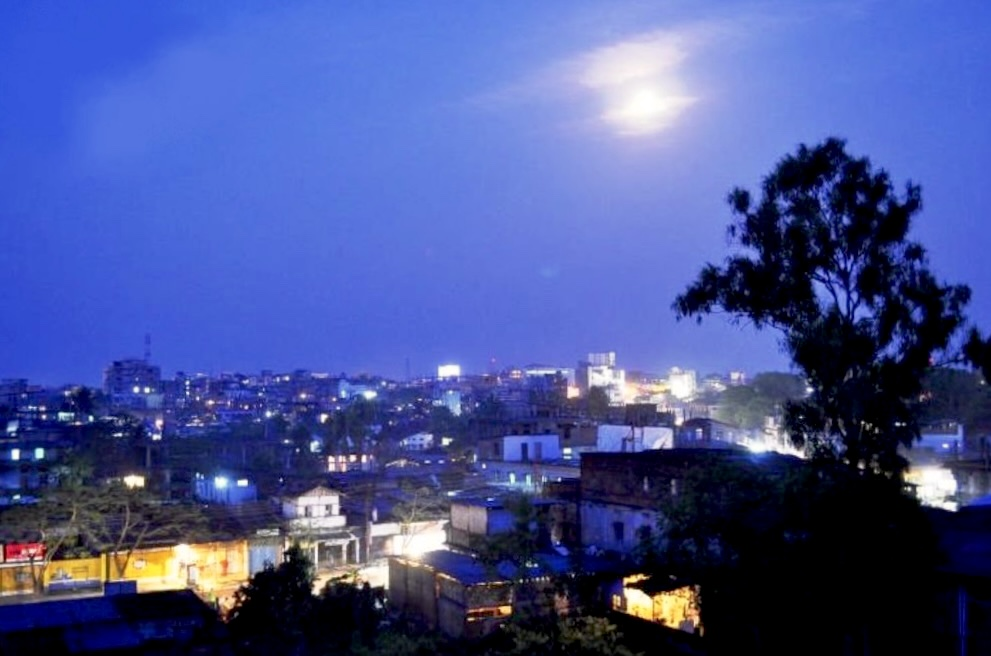 Jorhat